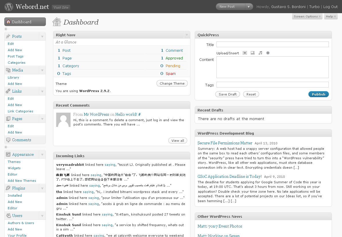 Screenshot of the WordPress 2.9 adminstration